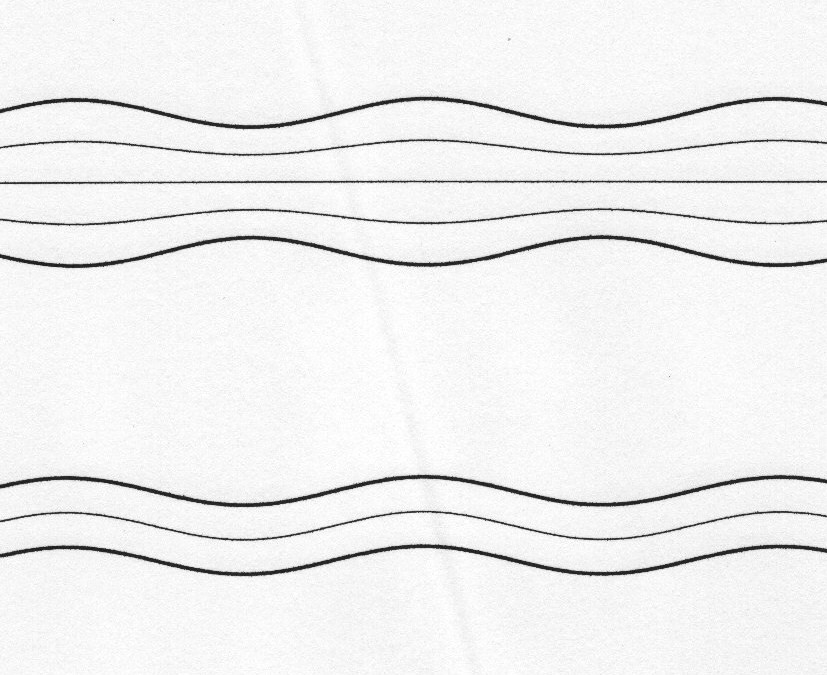 Plate Motion for the Two Zero-order Lamb Wave Modes Upper: Extensional mode, thickness/wavelength ratio 0.6 Lower: Flexural mode, thickness/wavelength ratio 0.3 This simplified graphic shows only the out-of-plane motion